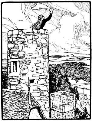 Illustration by Otto Ubbelohde to the fairy tale The Twelve Huntsmen